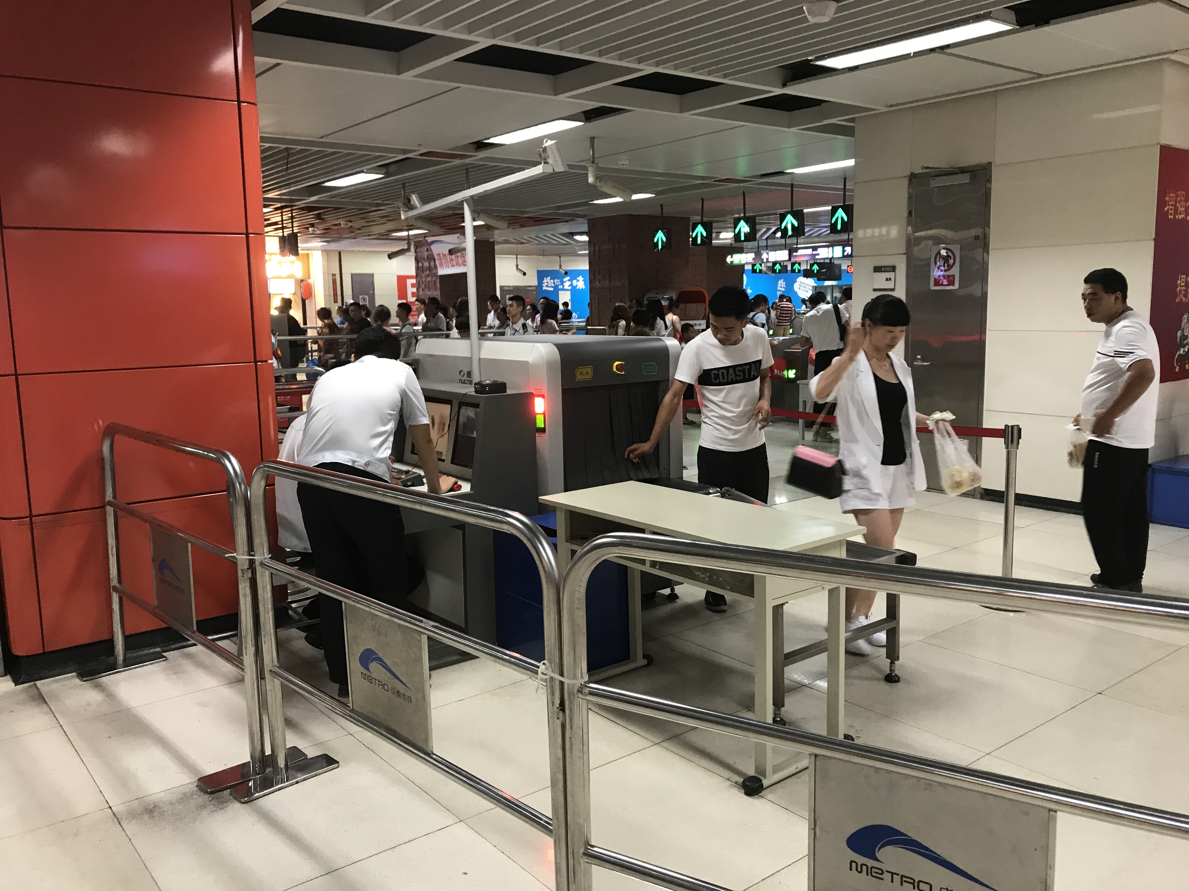 Security Inspection in Chunxi Road Station, Chengdu Metro